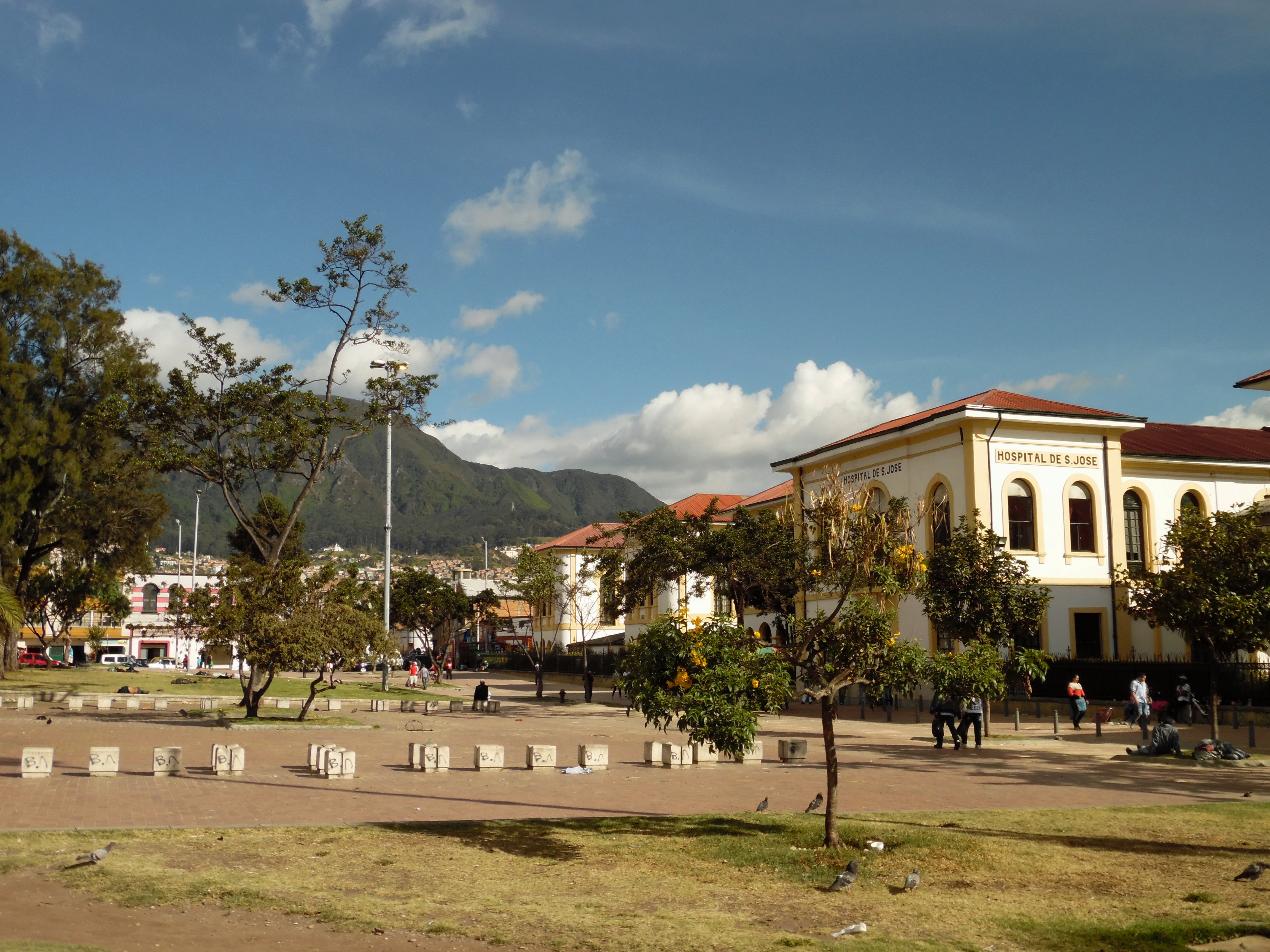 Bogotá